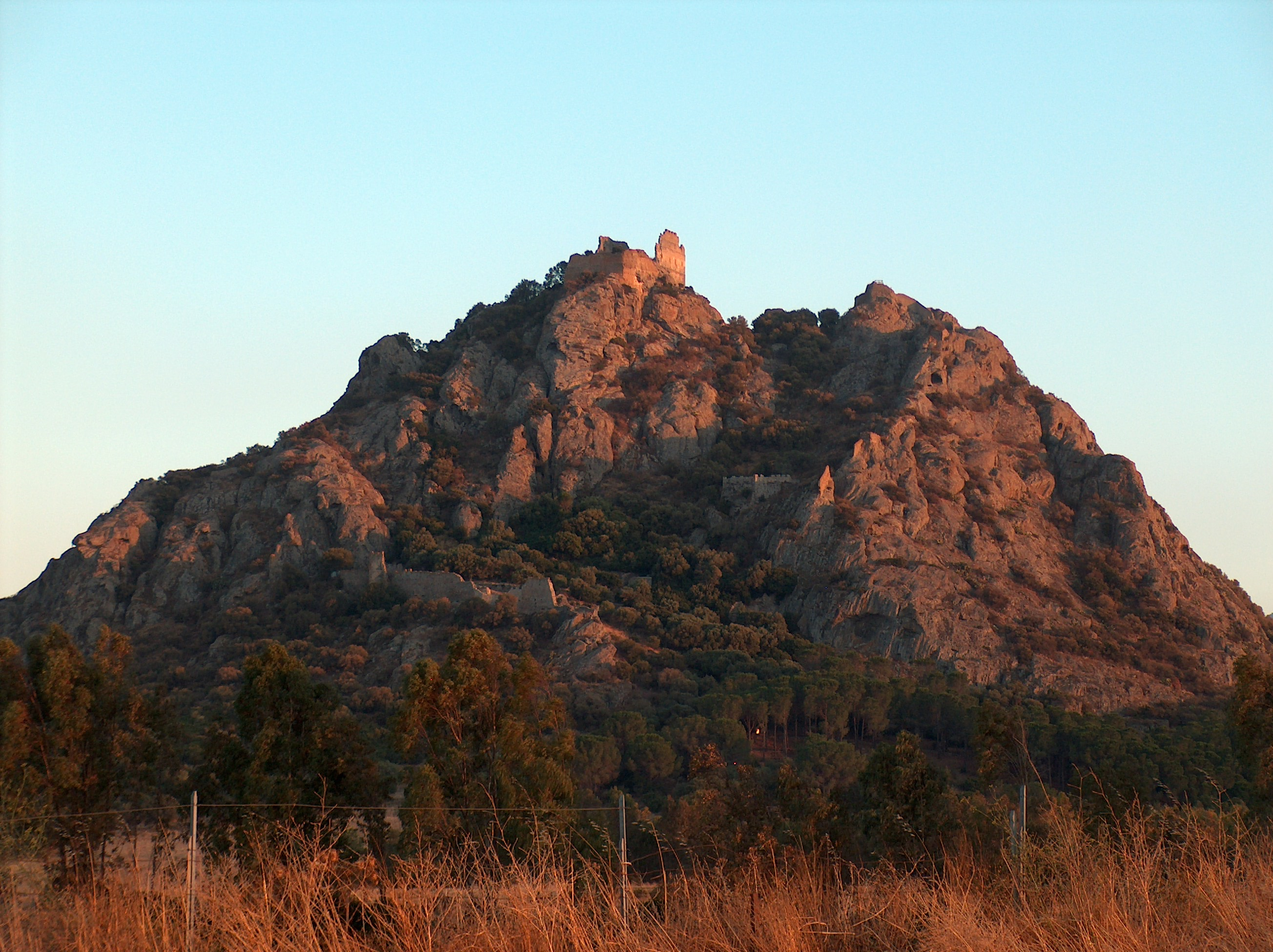 Andesitic dome of Acquafredda and ruins of medieval castle (Siliqua, Sardinia, Italy)